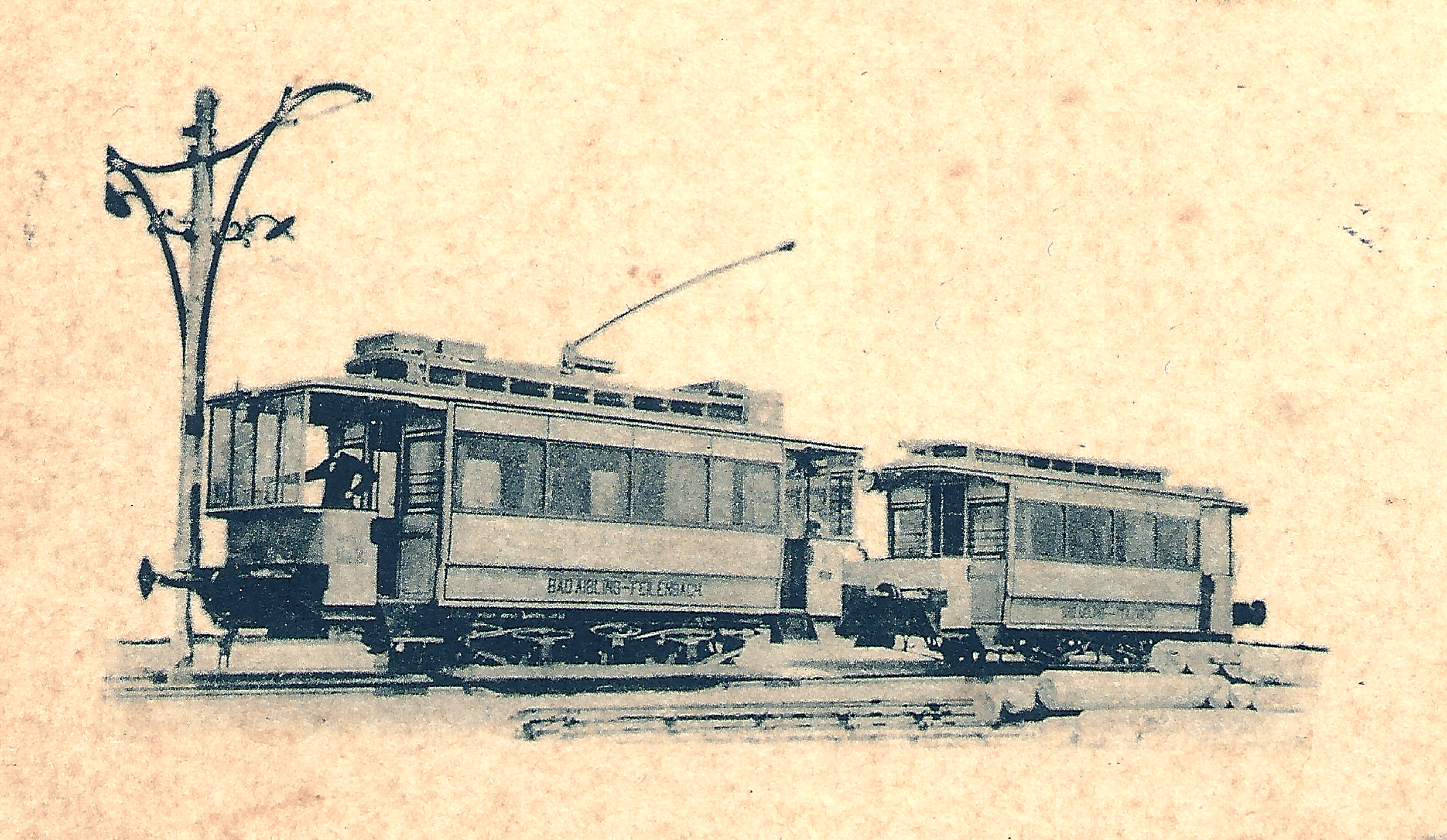 Electrical multiple unit of the local train Bad Aibling - Feilenbach 1897